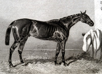 Etching of 1856 Epsom Derby winner Ellington. By an unknown artist.